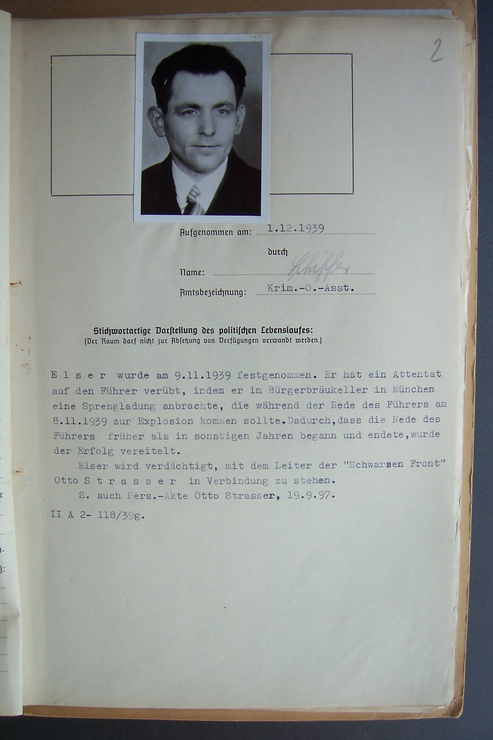 Short description of the offense from the personal file of Georg Elser, from the state police control center Düsseldorf (Provincial Archives of the North Rhine-Westphalia division of the Rhineland, RW 58 no. 65209) Taken on: 01.12.1939 by Name: Schipler Employment title: Assistant of the chief detective Abbreviated representation of the political resume: (The space may not be used for the deposition of directives.) Elser was arrested on 09.11.1939. He attempted the assassination of the Führer by installing an explosive charge in the Bürgerbräukeller in Munich, which was supposed to cause an explosion on 08/11/1939 during the speech of the Führer. The fact that the speech of the Führer began and ended earlier than in other years, thwarted the attempt. Elser is suspected to have been in contact with the head of the "Black Front", Otto Strasser. Also see the Personal File of Otto Strasser, 19-9-97. II A 2 118 / 39g.